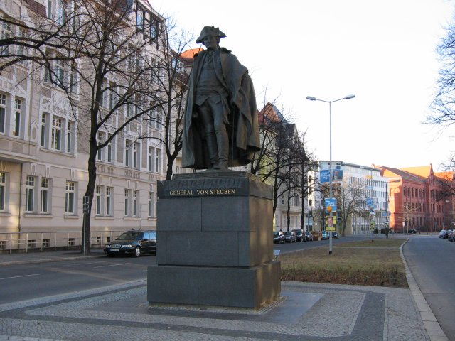 General von Steuben monument in Magdeburg, Germany, sculpted by Albert Jaegers (copy)